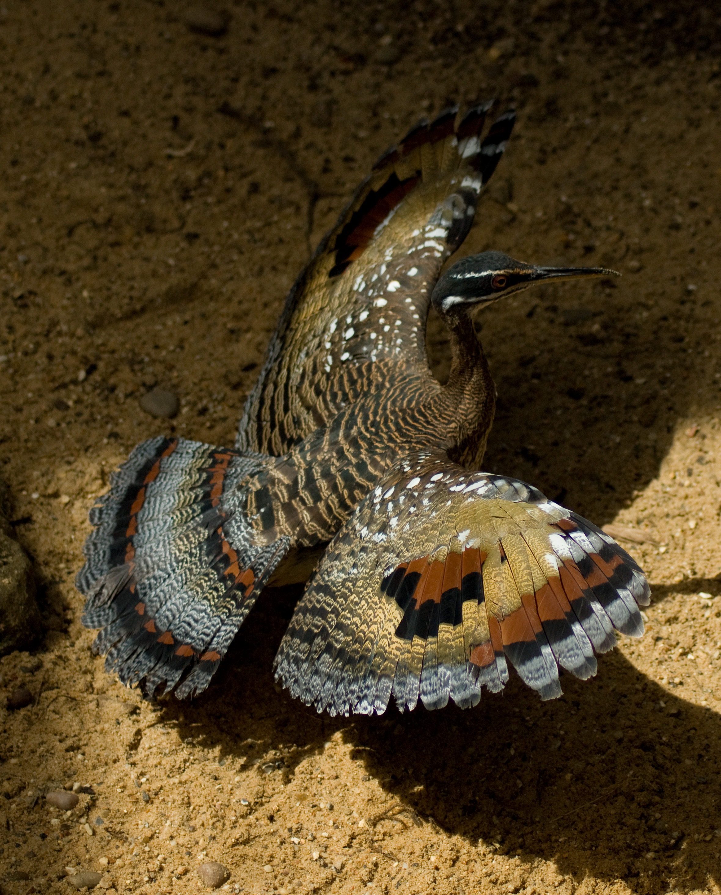 Sunbittern from London Zoo